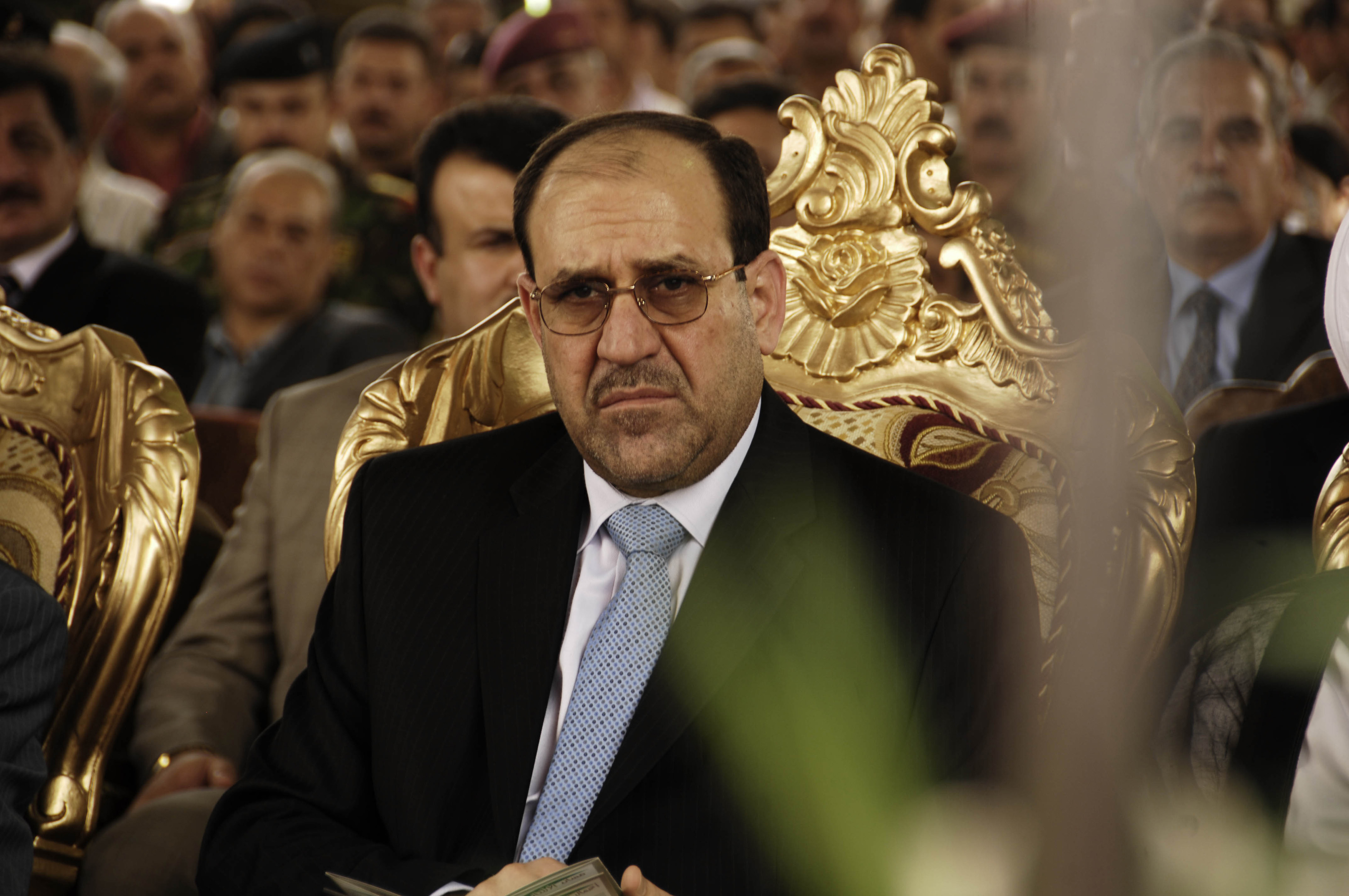 Prime Minister of Iraq Nuri al-Maliki listens to an opening speech during the Sarafiya bridge opening in Kadhimiya, Iraq.